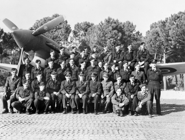 Personnel from No. 450 Squadron RAAF in front of a Kittyhawk fighter, May 1945